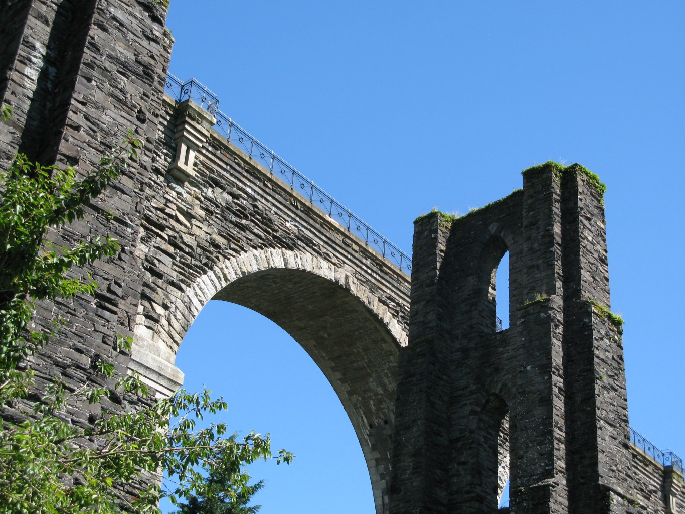 A pier of Isambard Kingdom Brunel's original viaduct stands alongside the replacement Moorswater Viaduct at Liskeard, Cornwall, United Kingdom.